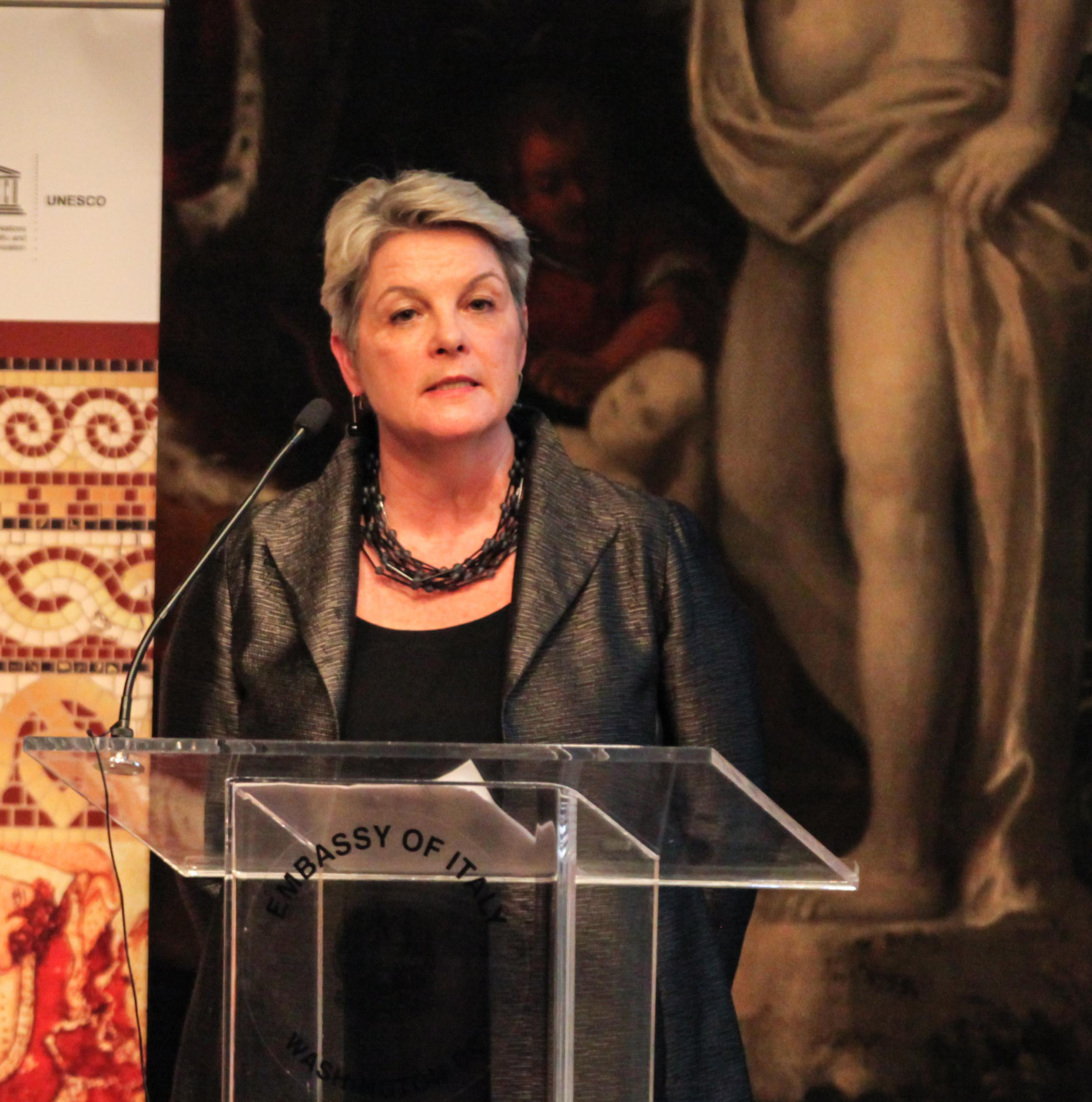 Karol B. Wight, Ph.D President and Executive Director, The Corning Museum of Glass Photographer: Kelsey Brannan, Bureau of Educational and Cultural Affairs, U.S. Department of State